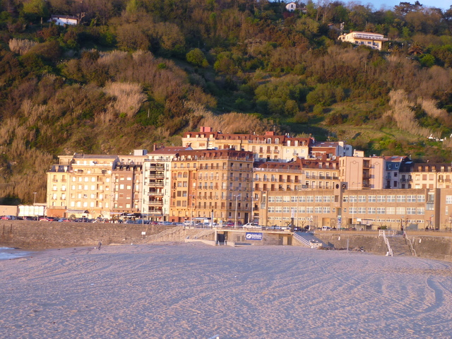 sagues neigbourhood in Donostia.